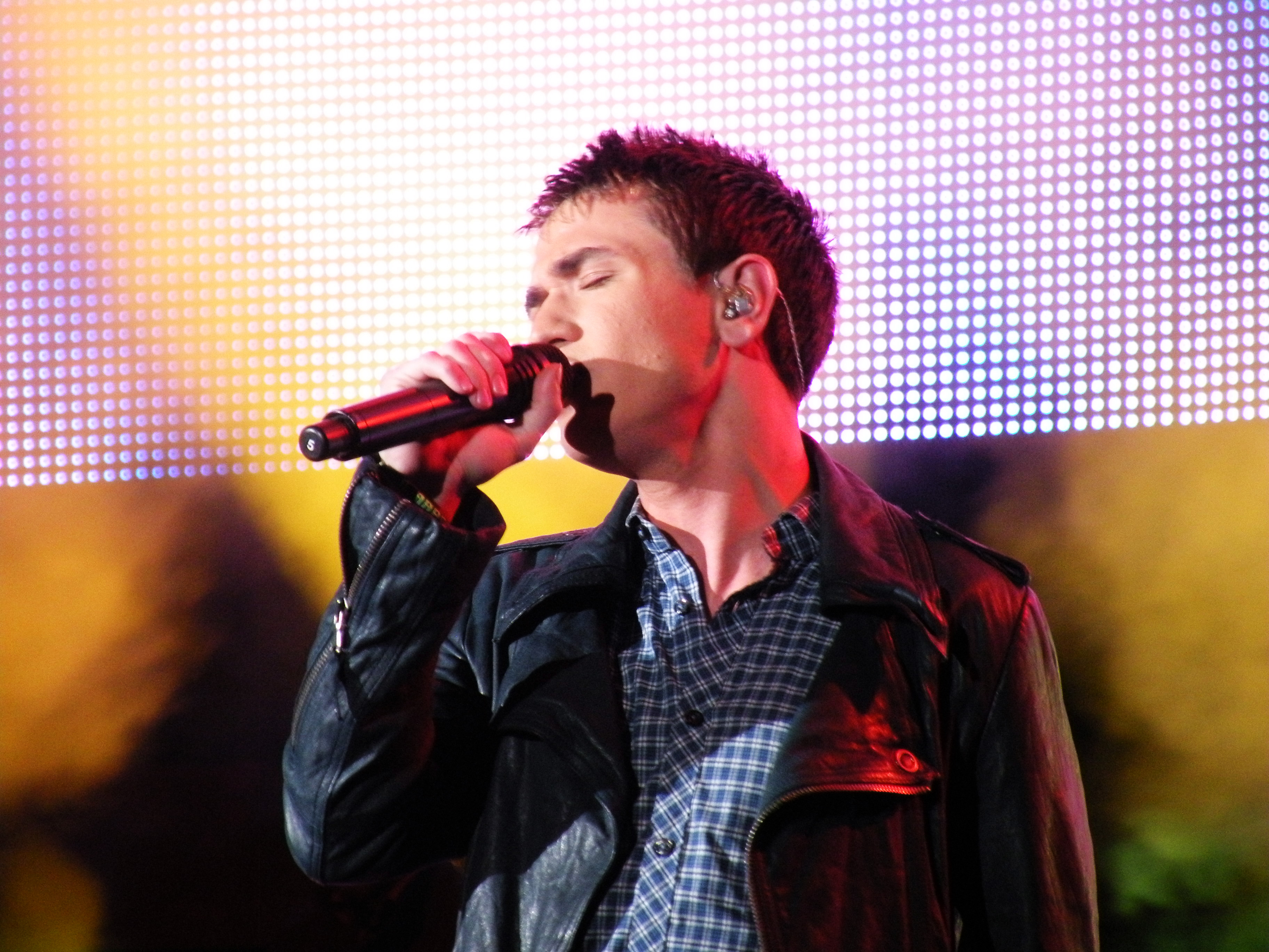 Aaron Kelly performing on the American Idol Live tour in Denver, CO on 8/23/2010